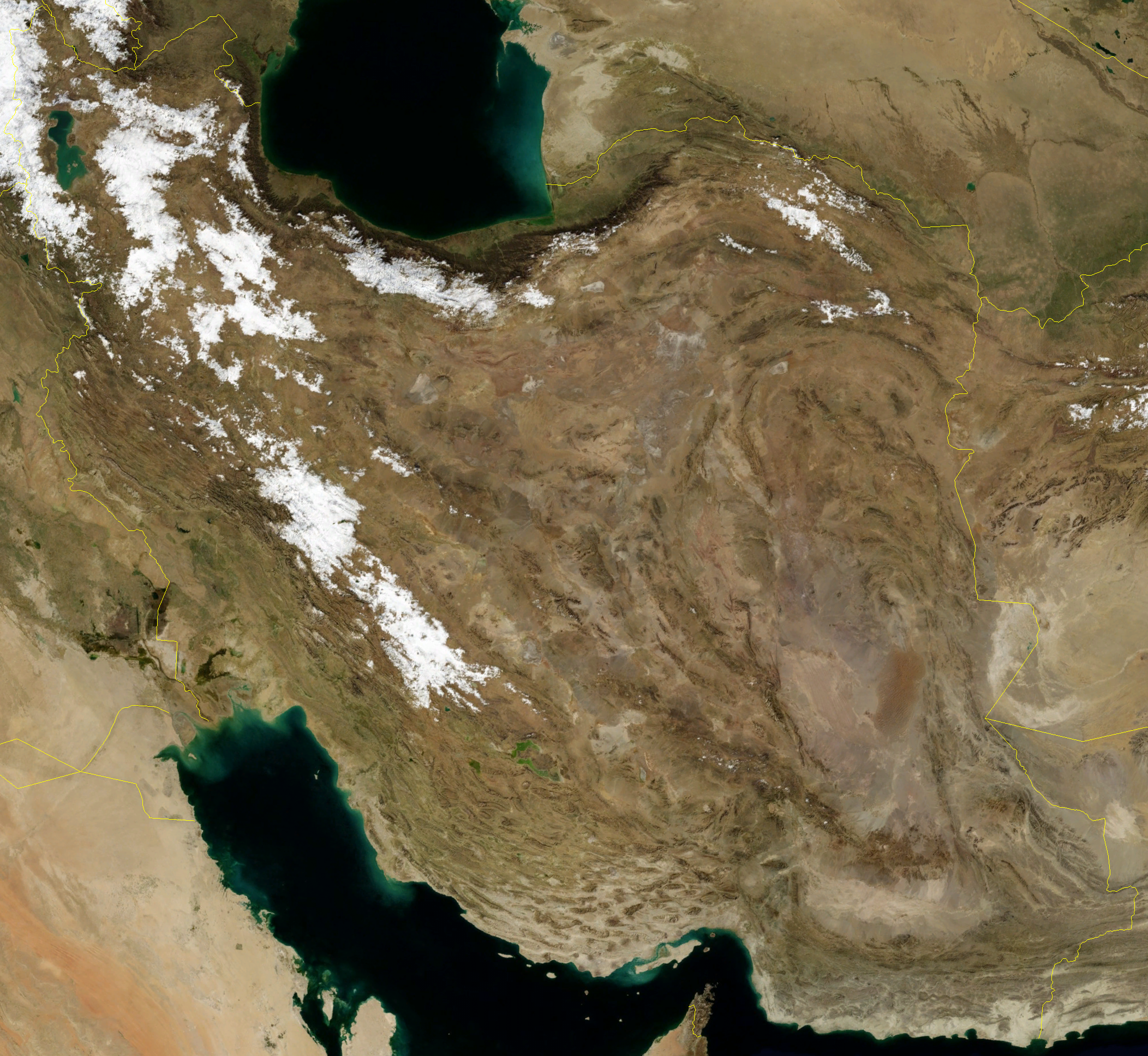 Satellite image of Iran in January 2004.